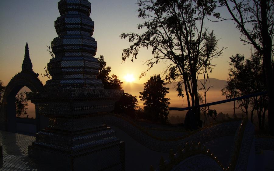 The new Chedi outside the town Phaya Mengrai, Chiang Rai, Thailand